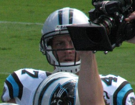 Jeff King, tight end of the Carolina Panthers, before a game in 2008 and behind a cameraman.